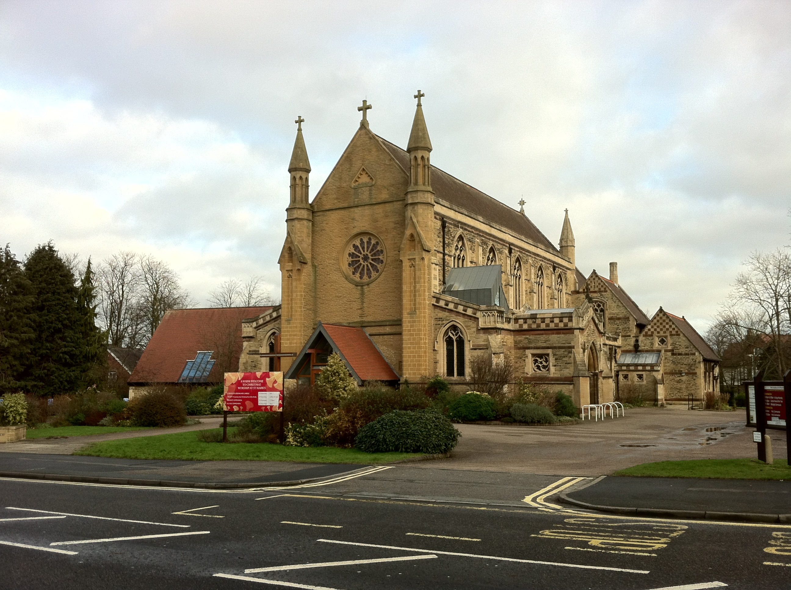 St Mark's parish church, Leeds Road, Harrogate, North Yorkshire, seen from the southwest